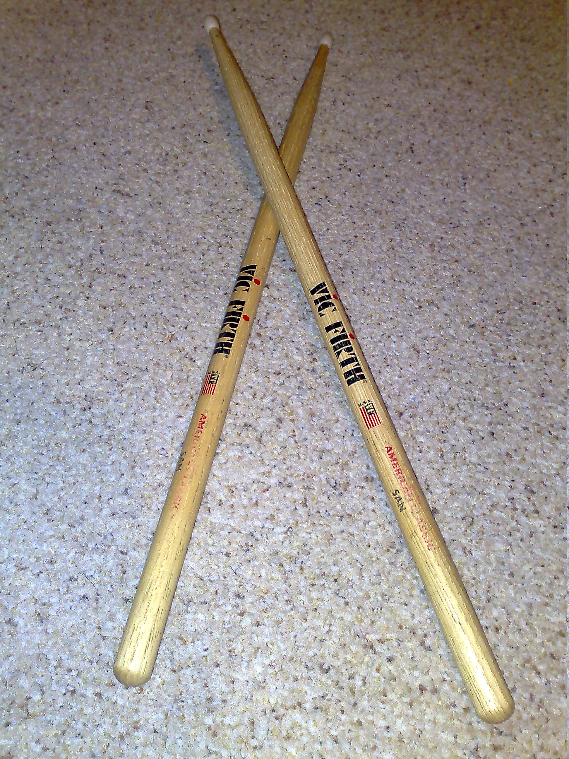 5an drumsticks by Vic Firth